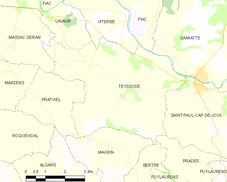 Map of French municipality Teyssode